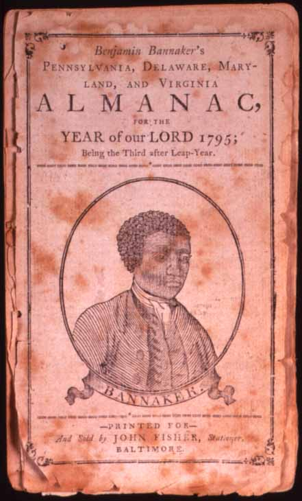 Benjamin Banneker on his almanac of the year 1795